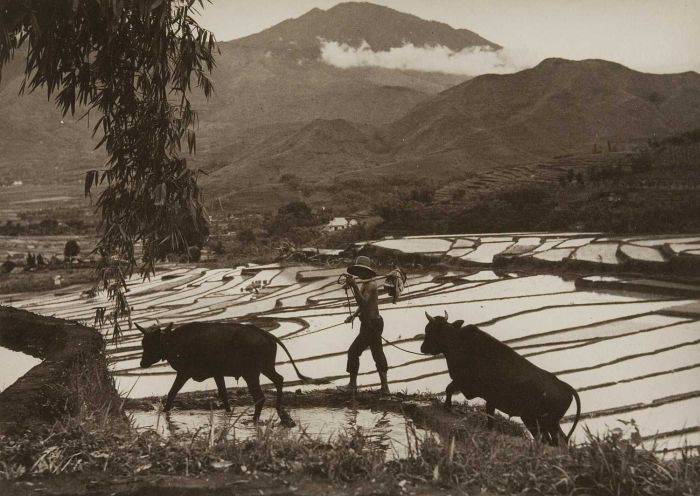 Rice fields at the foot of the Gunung Anjasmoro